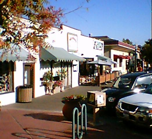 Cotati, California downtown scene